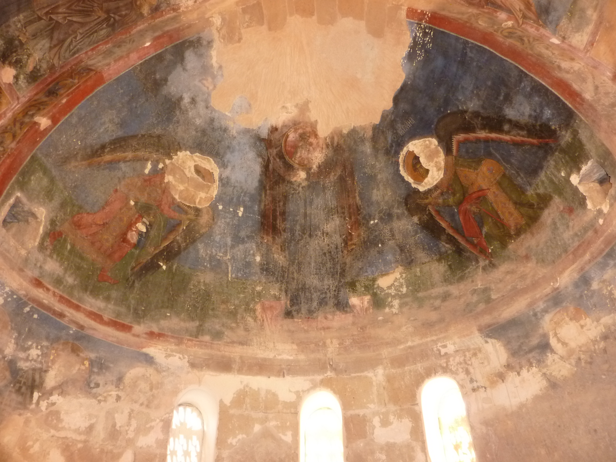 Antiphonitis, Northern Cyprus